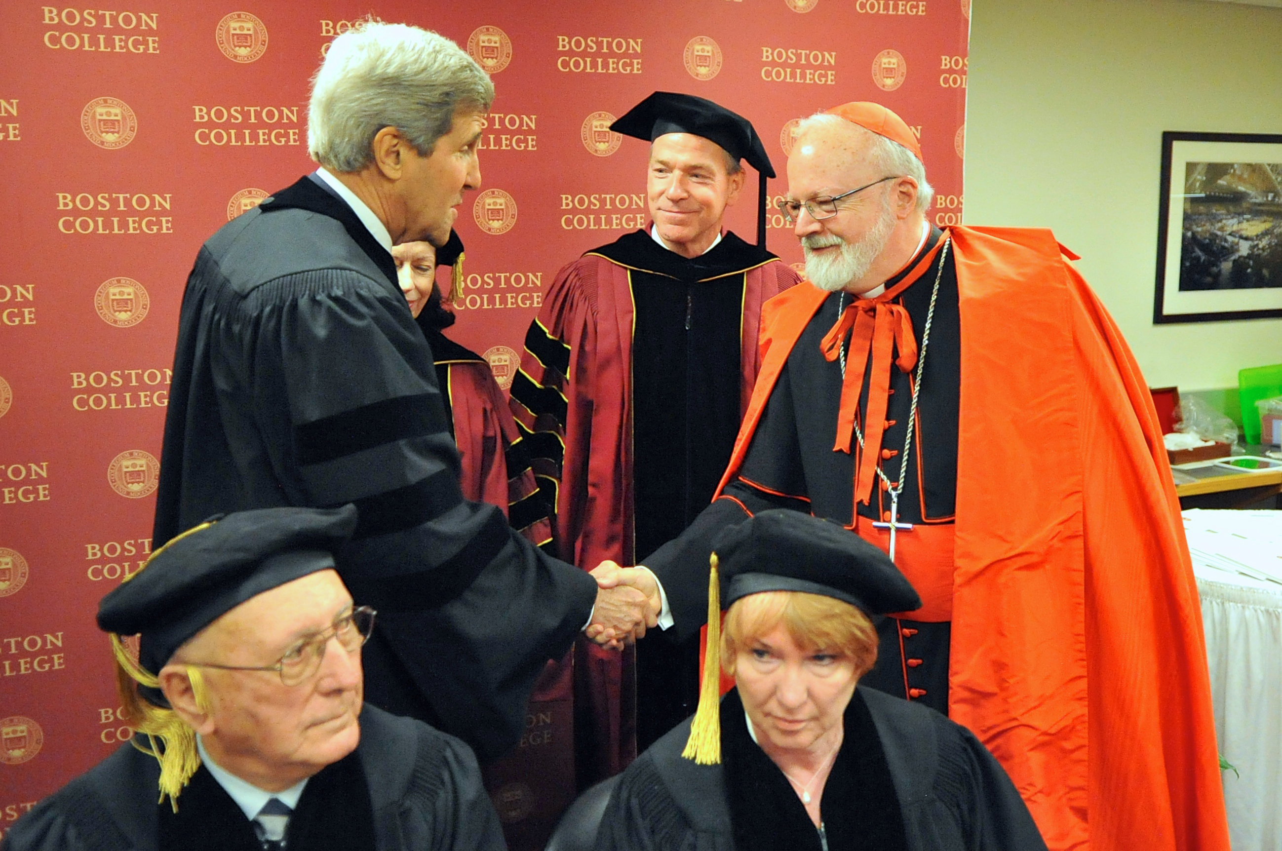 U.S. Secretary of State John Kerry greets Cardinal Sean O'Malley before entering Alumni Stadium to deliver the commencement address at Boston College in Boston, Massachusetts, on May 19, 2014. [State Department photo/ Public Domain]